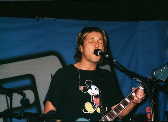 Grant Nicholas performing with Feeder at the Islington Academy on the 1st February 2005.